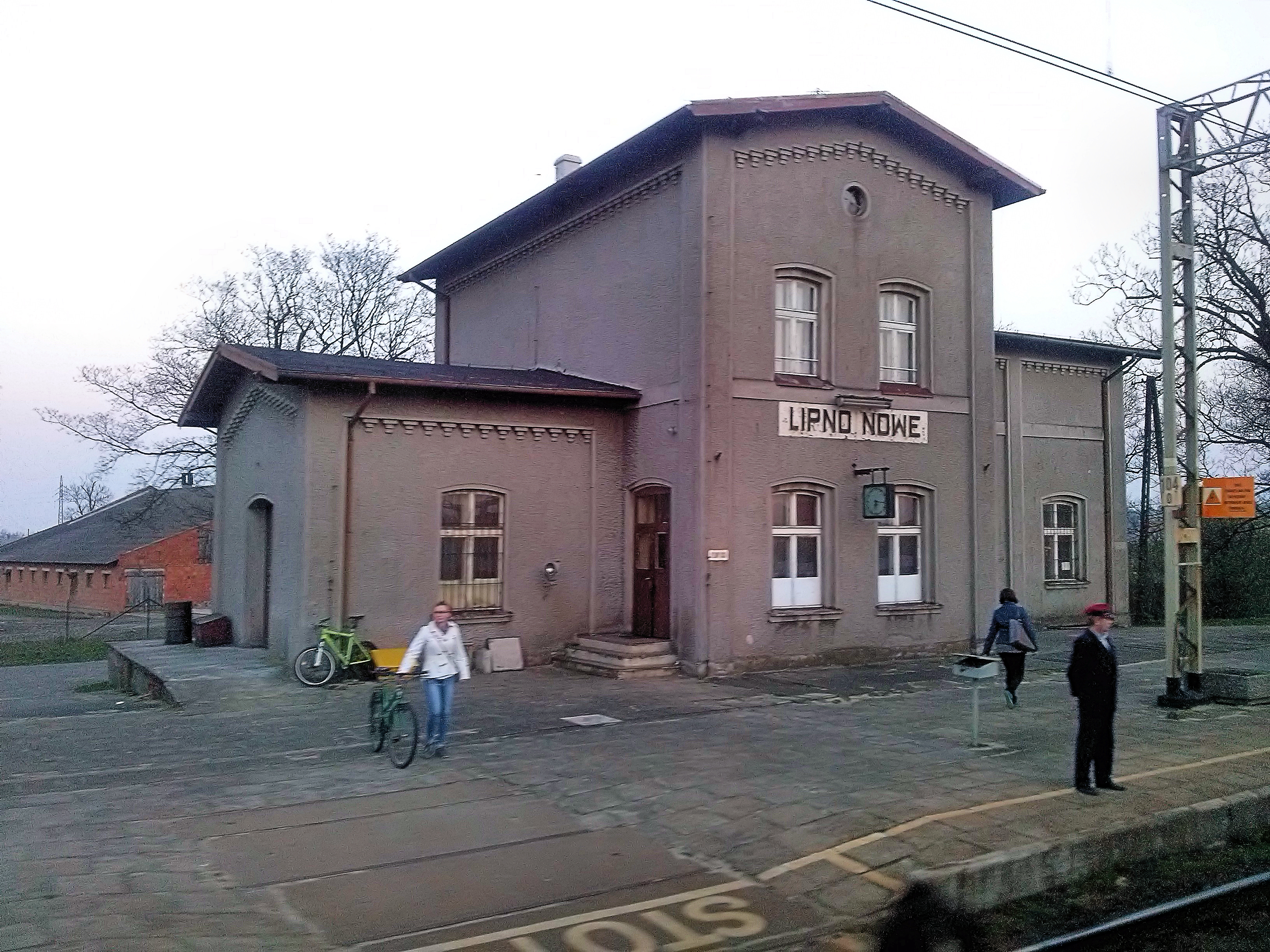 Railway station Lipno Nowe